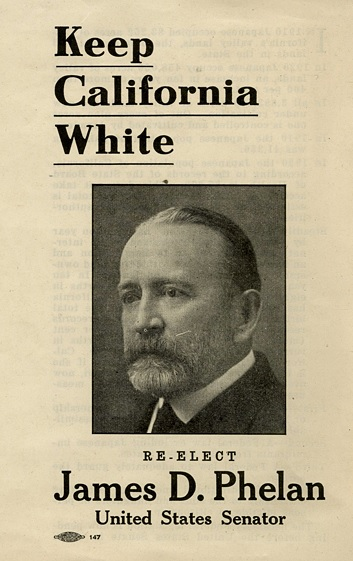 James Phelan, a former mayor of San Francisco, U.S. Senator